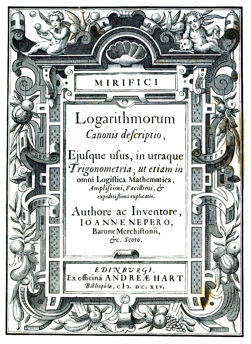 Book on Logarithms by John Napier